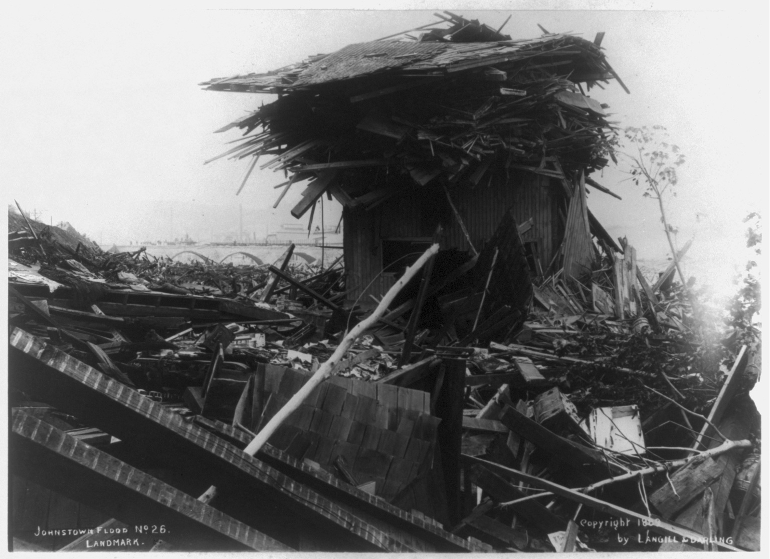 A house that was almost completely destroyed in the 1889 Johnstown Flood. Most of the house fell to the ground, but one small piece remained standing, soon to be piled underneath more debris.